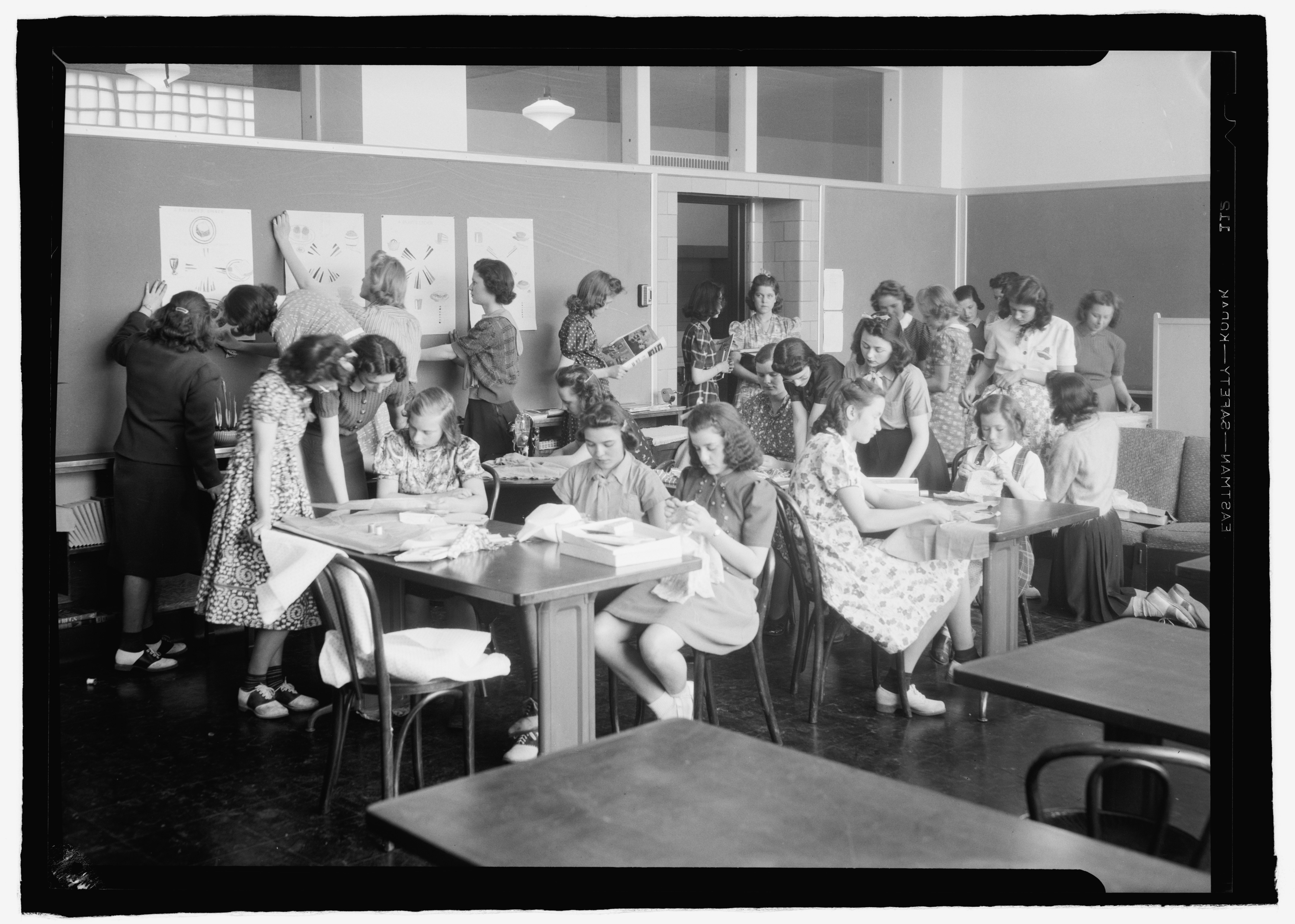 Title: Rockville High School, c.1936 Abstract/medium: 1 negative : safety film ; 5 x 7 in. or smaller